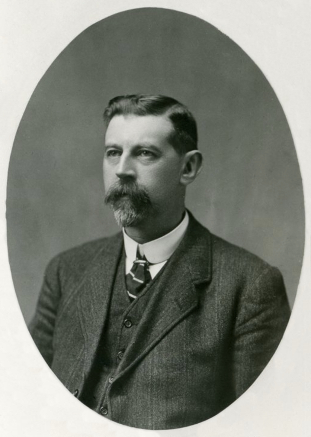 Studio portrait of engineer Herbert William Garratt, 1864–1913, inventor of the articulated steam locomotives that bore his name.